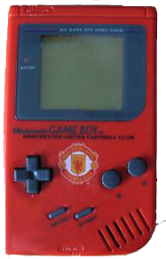 Play It Loud! Game Boy